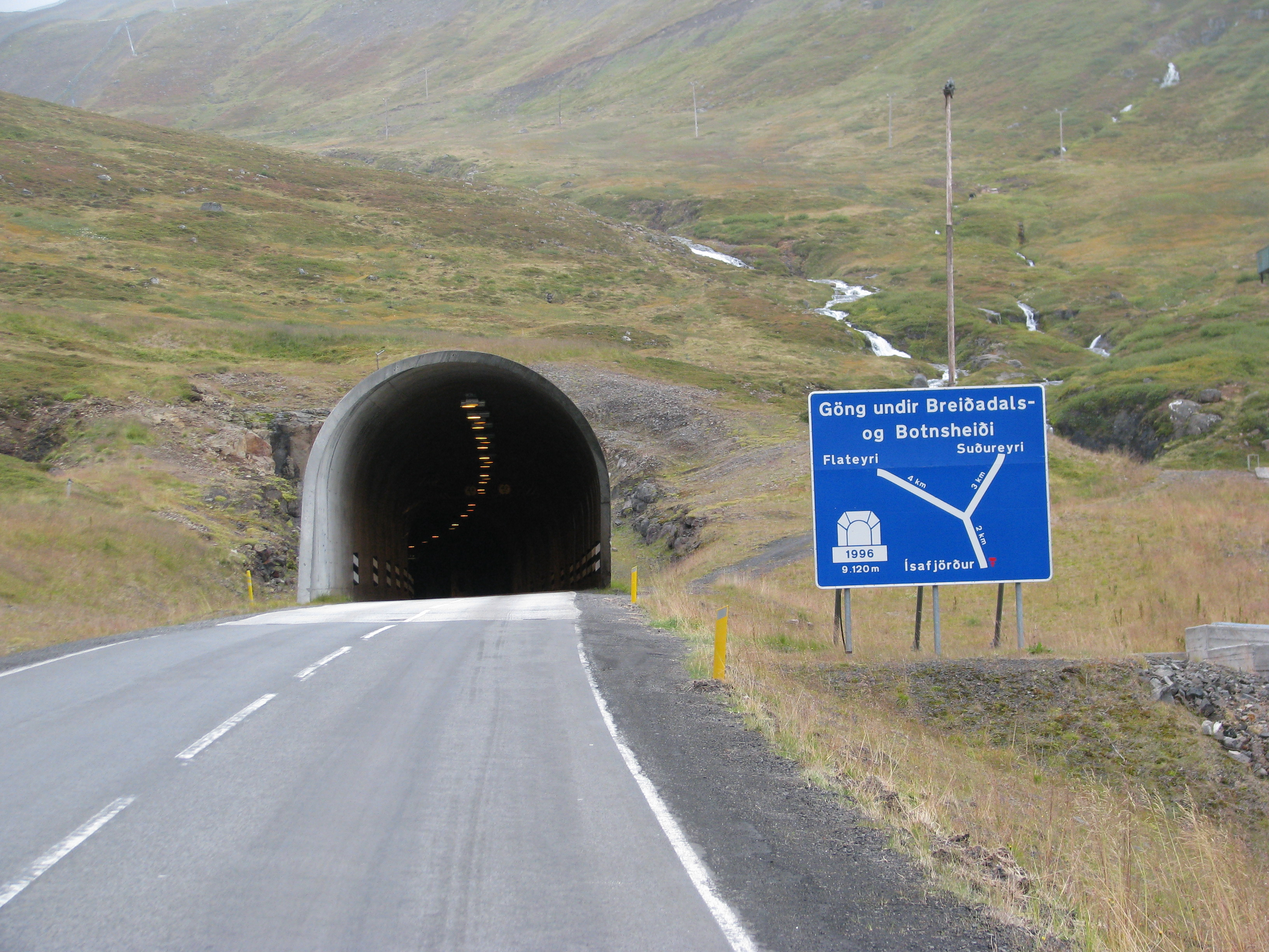 Vestfjardargöng, a tunnel in Iceland